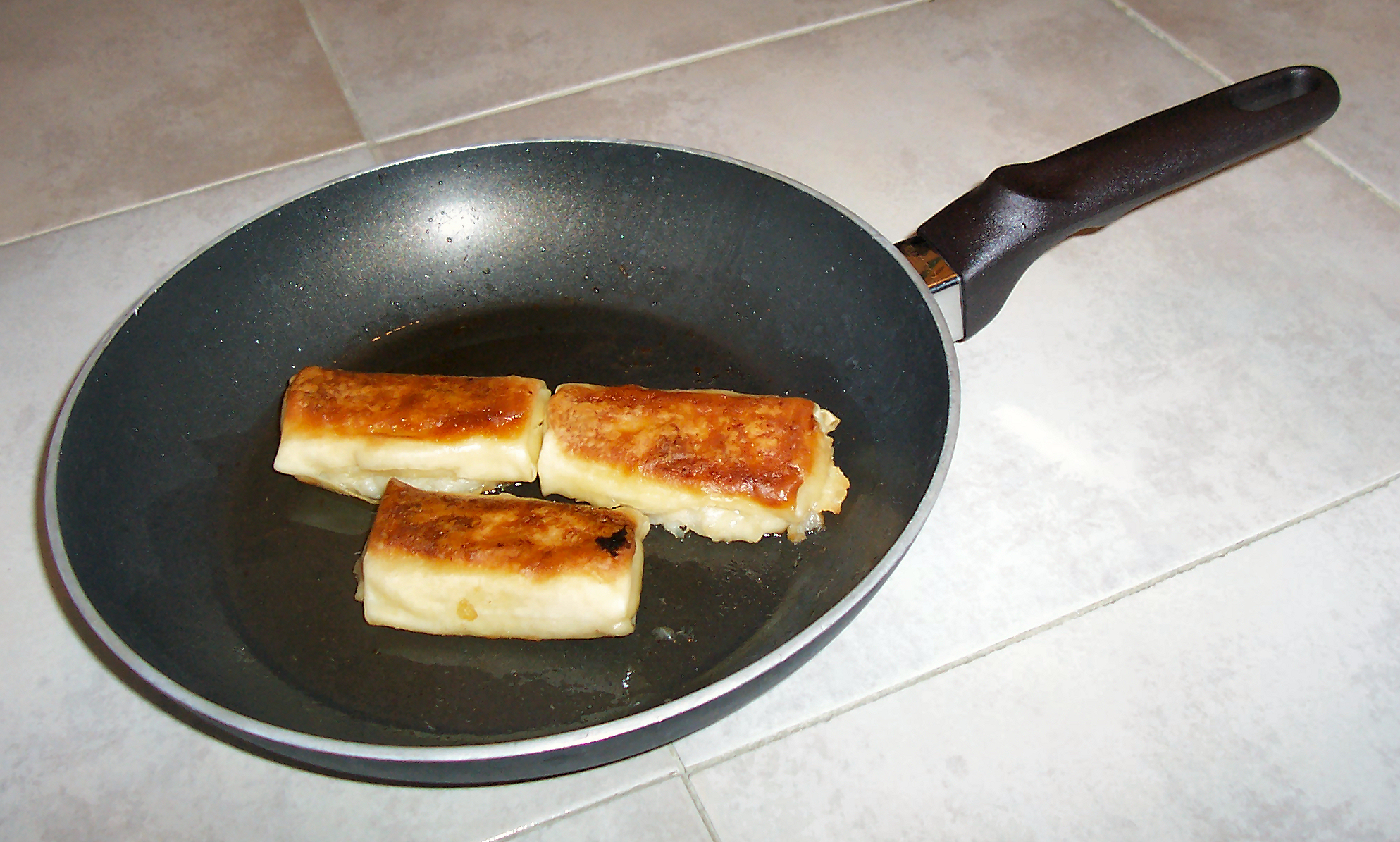 Freshly cooked frozen blintzes in a frying pan. Photo taken by me, in the kitchen of my house.